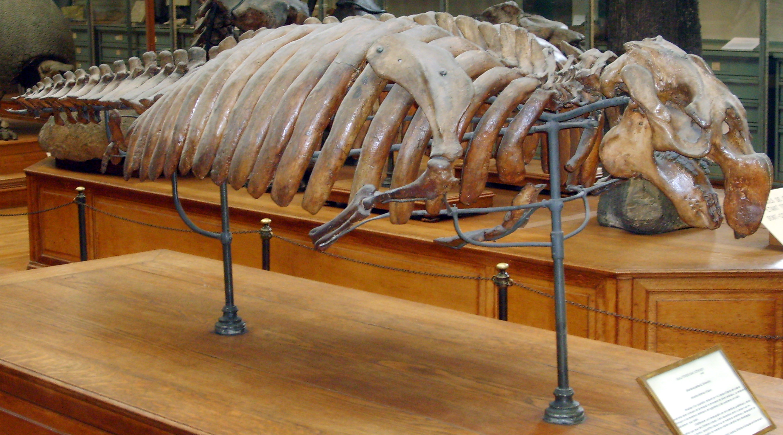 Halitherium schinzi skeleton, Muséum national d'Histoire naturelle, Paris.